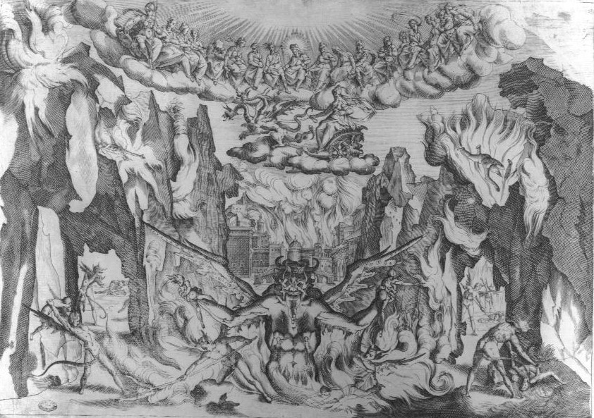 Stage design for the fourth Intermedio (La regione de’ demoni) at the Medici Wedding of 1589; engraved by Carracci after a drawing by Bernardo Buontalenti.